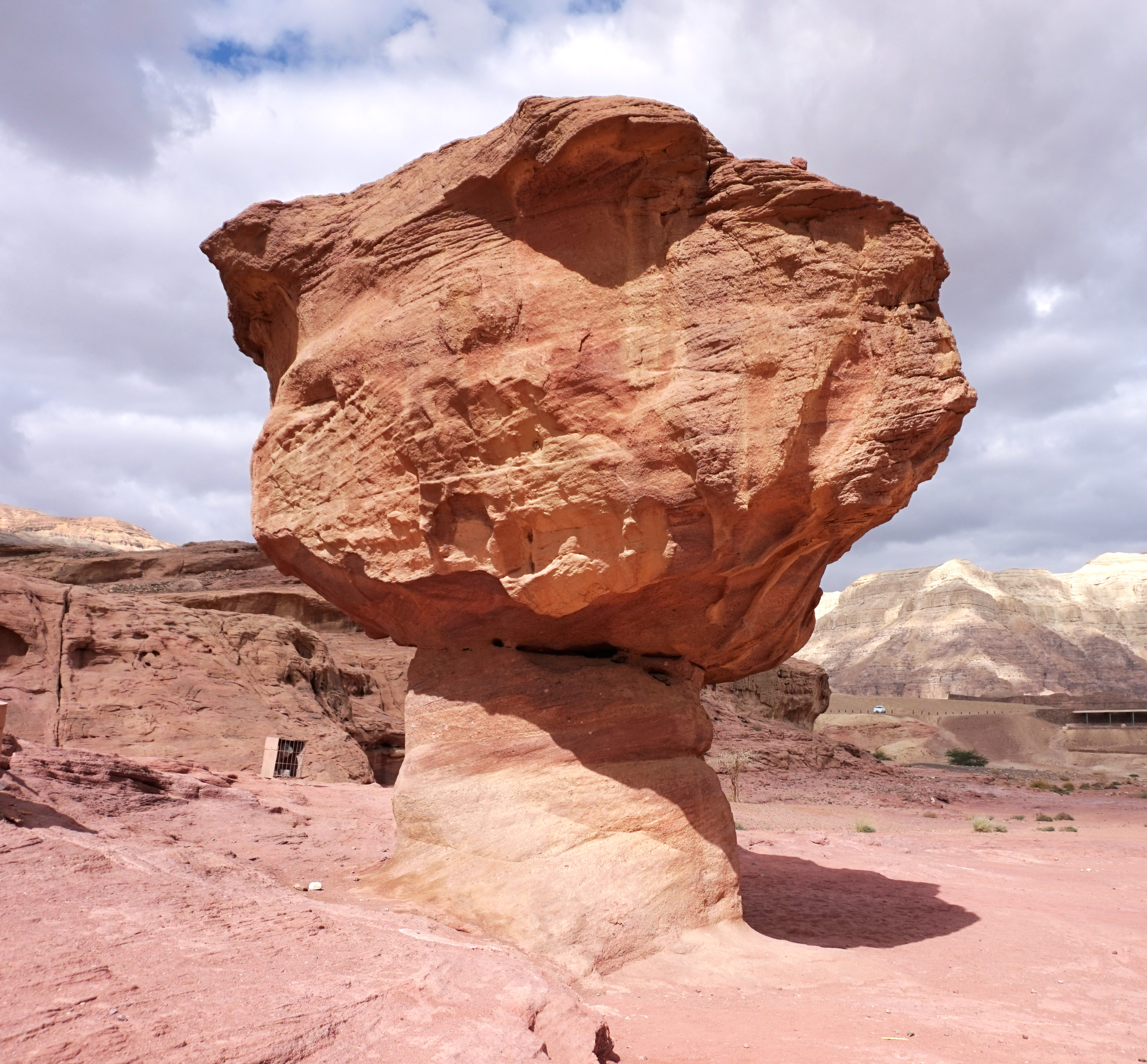 The Mushroom rock formation in Timna Park, Israel.This photograph was taken with a Sony ILCE-5000